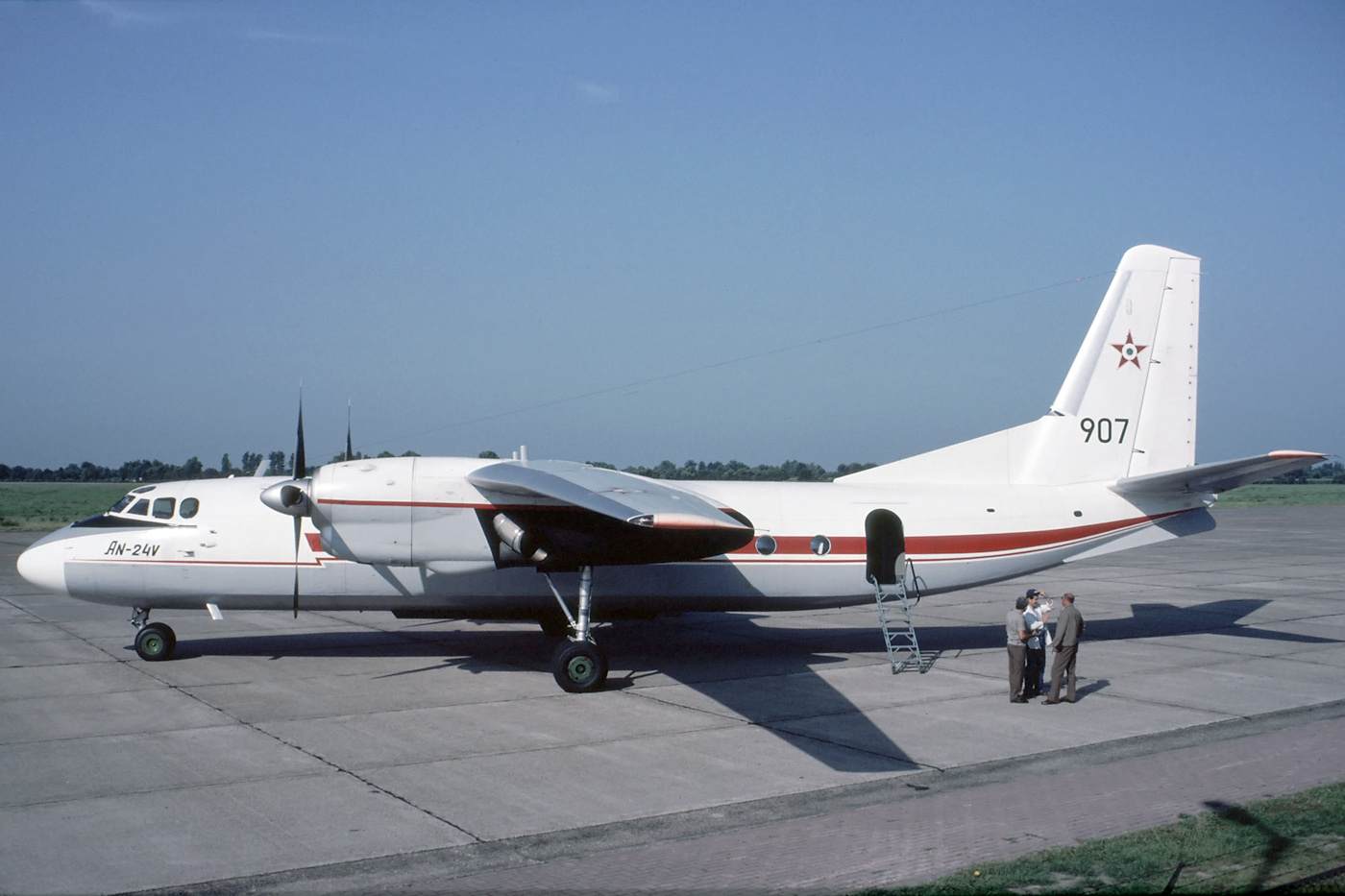 Antonovs from Hungary were still rare in 1990. On July 27th two came to Groningen Eelde airport in the north-east of the Netherlands. They brought a group of athletes to the world championships for disabled, that were held in the area. Both still wore the national insignia ( 'roundels') from the Warsaw Pact era. An-24V 907 was last seen preserved in the museum at Szolnok air base. This great museum has closed :(